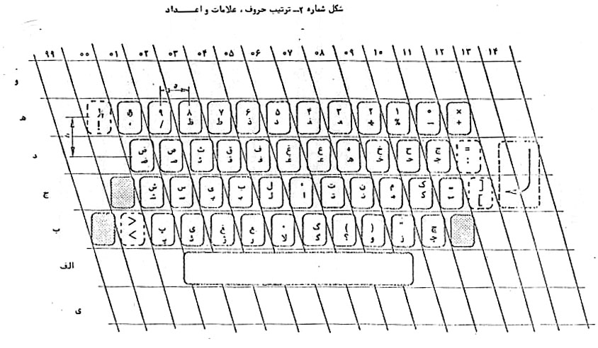 ISIRI 820 keyboard